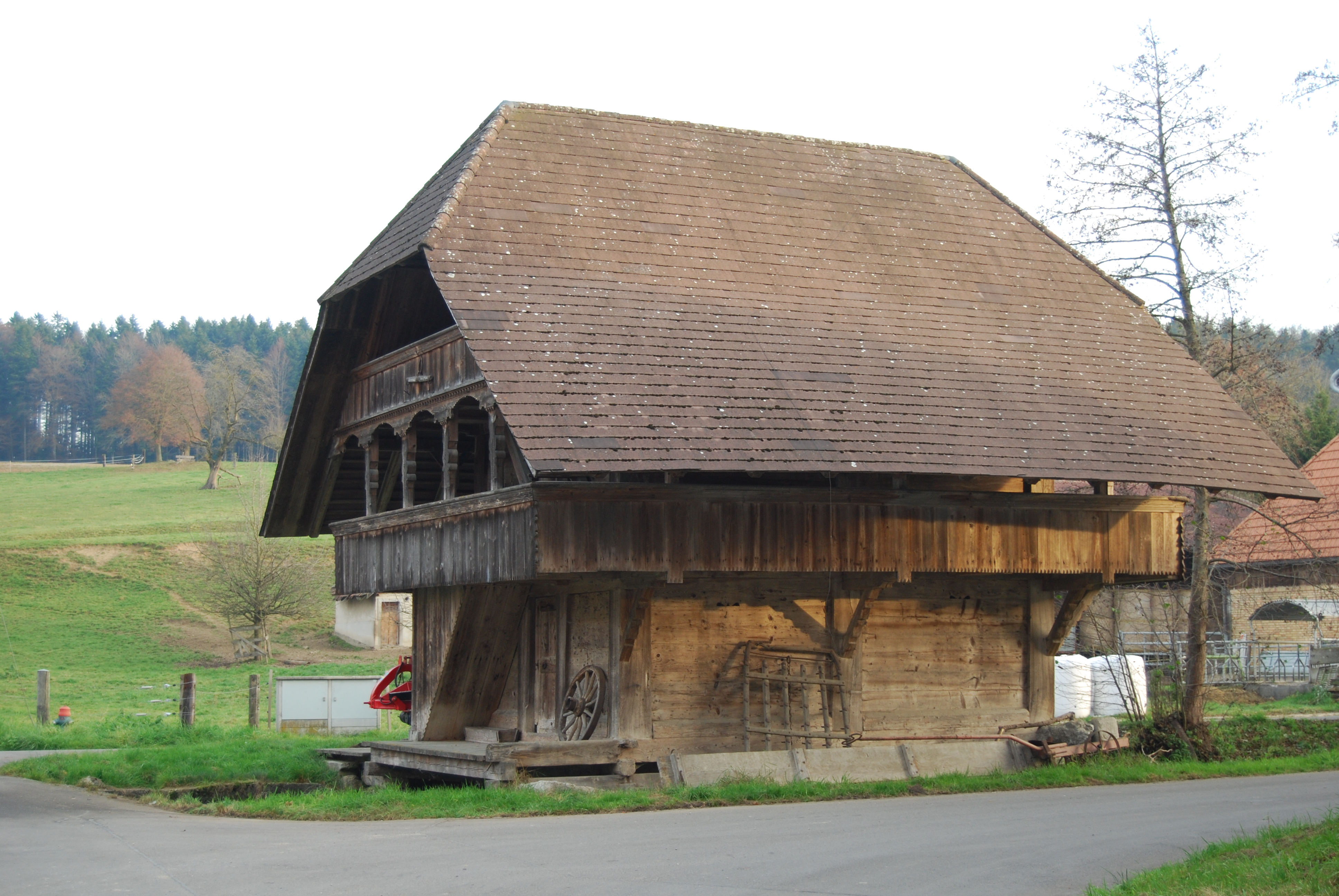 Willadingen, canton of Bern, SwitzerlandEsperanto: Willadingen, Kantono Berno, Svislando